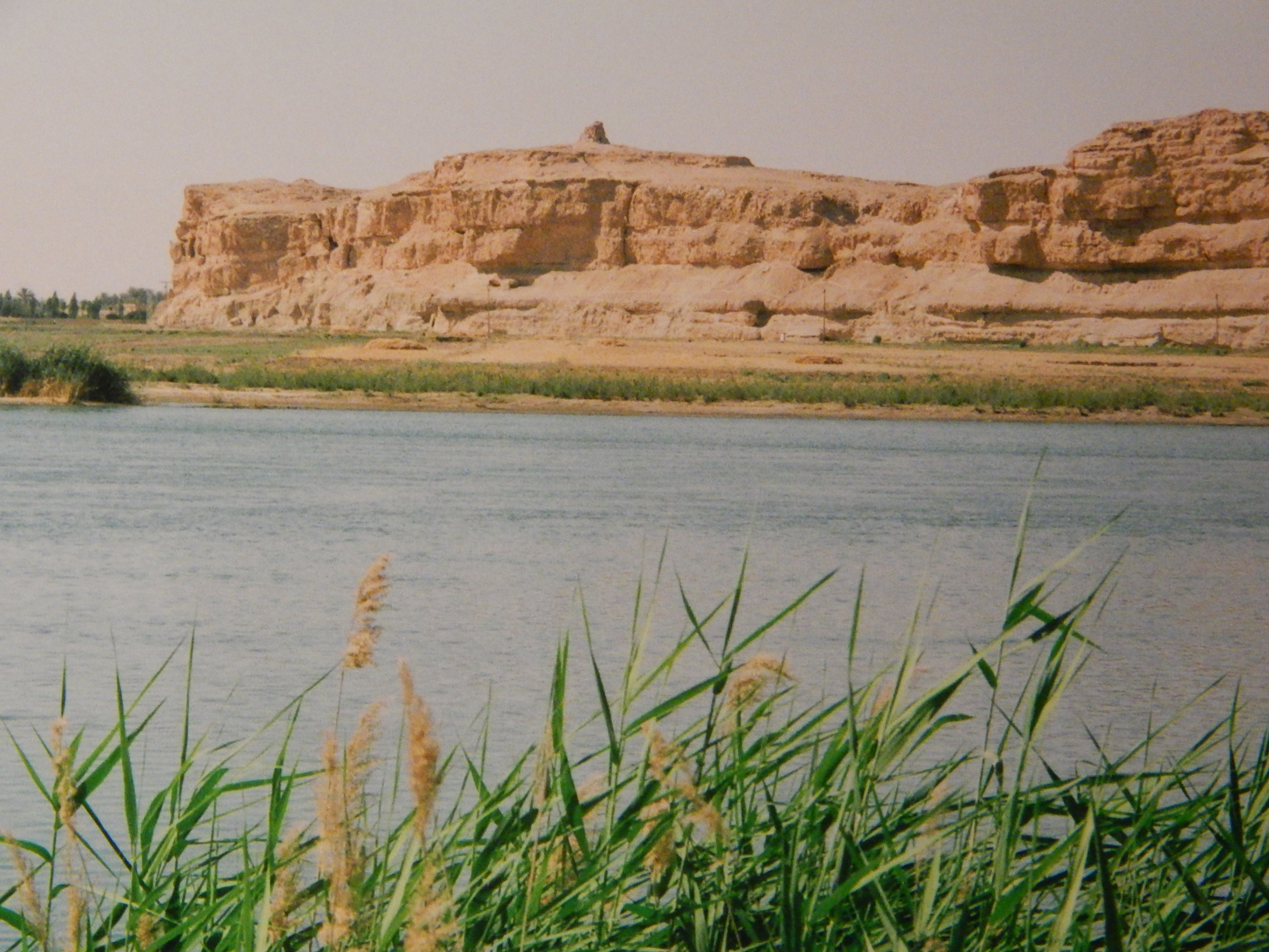 View from the southern shore of the Euphrates River of the cliffs on the northern shore, which are known as the Baghuz Cliff (Jabal Baghuz), situated southeast of the hamlet village of Al-Baghuz Fawqani, Syria.